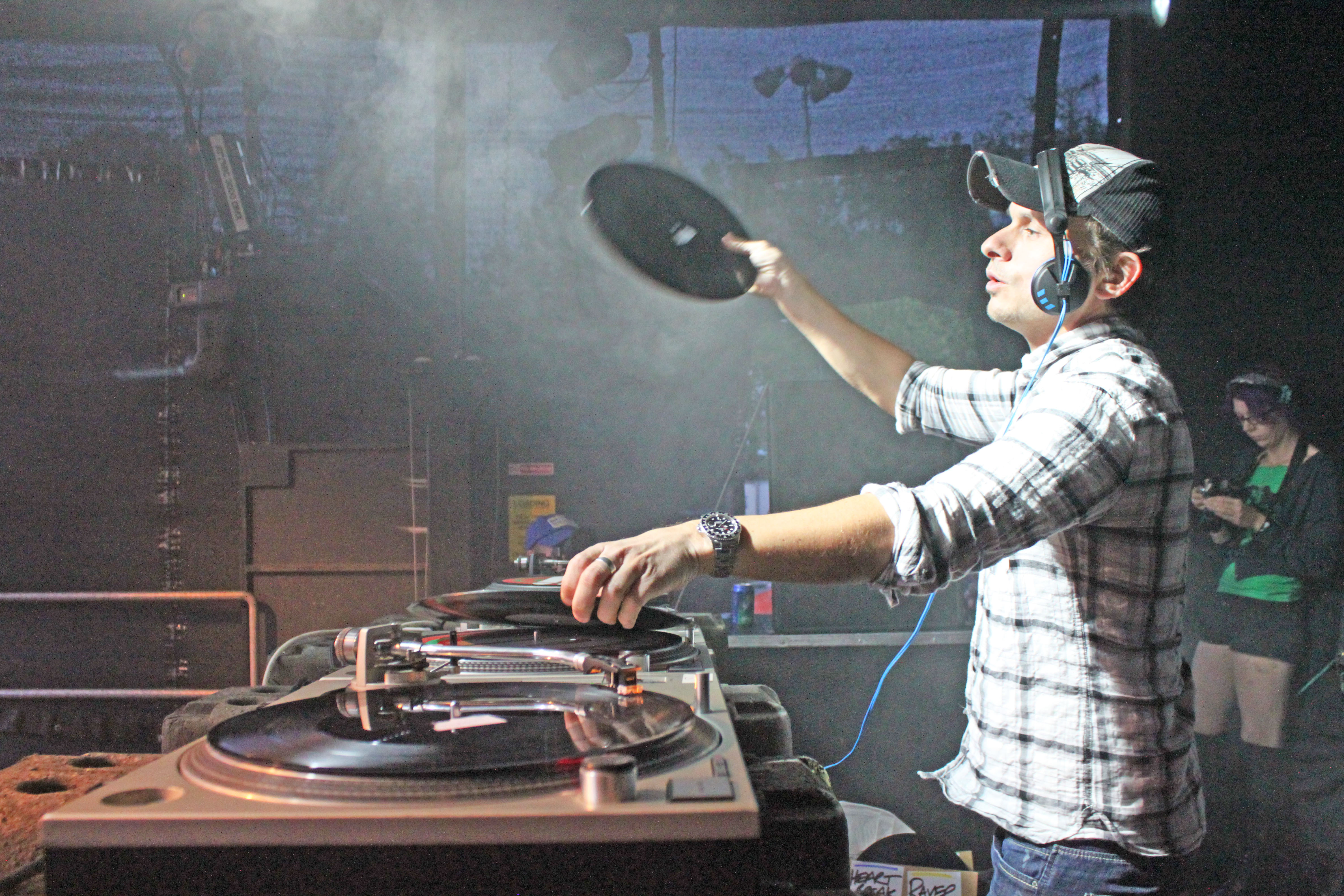 Andy C live in 2011